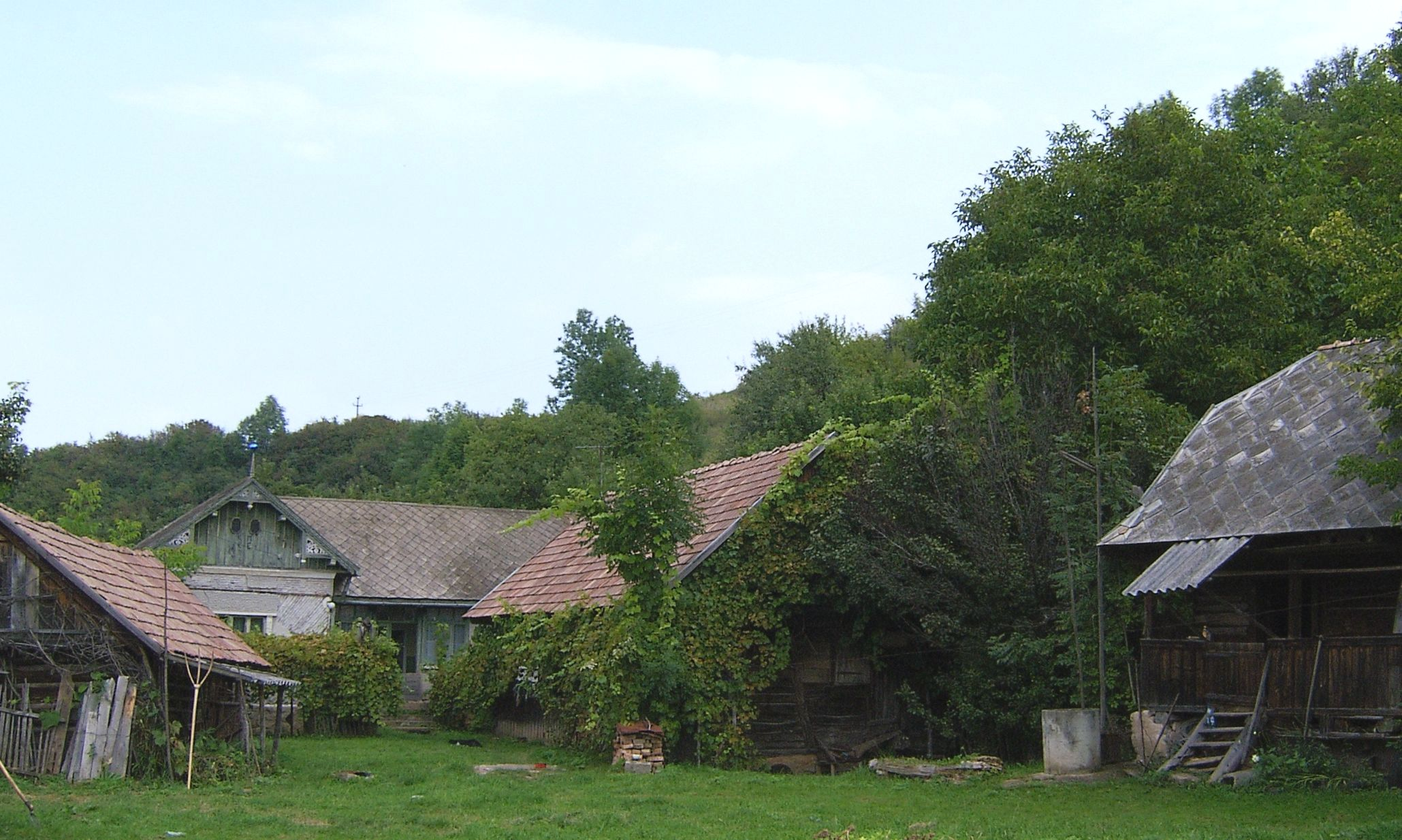 Former millbuilding in Călăţele, Transylvania